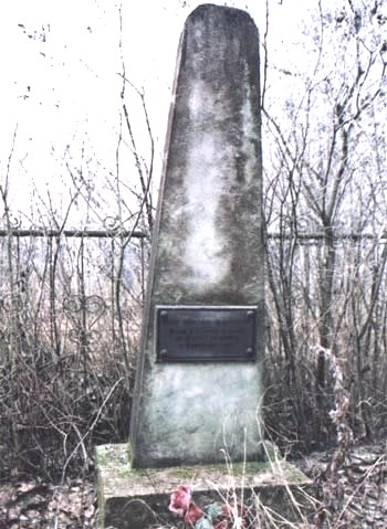 The monument at the place of killing of 148 Jews of Begoml in 1941.